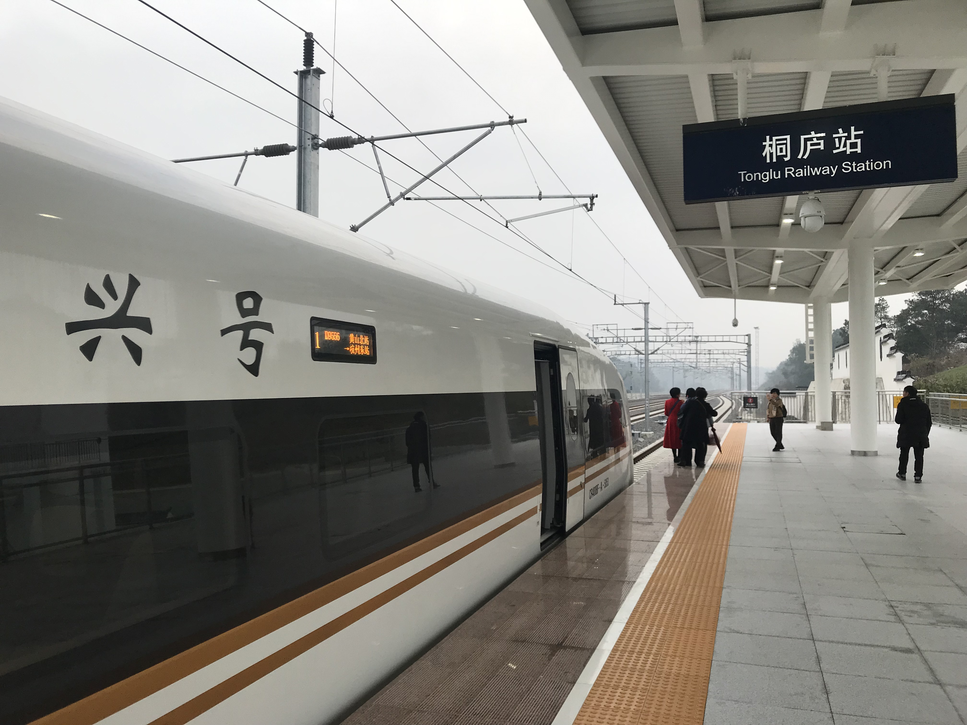 201812 Platform 1 of Tonglu Station. I tried to take a head-shot but there were some dama(s) taking photos